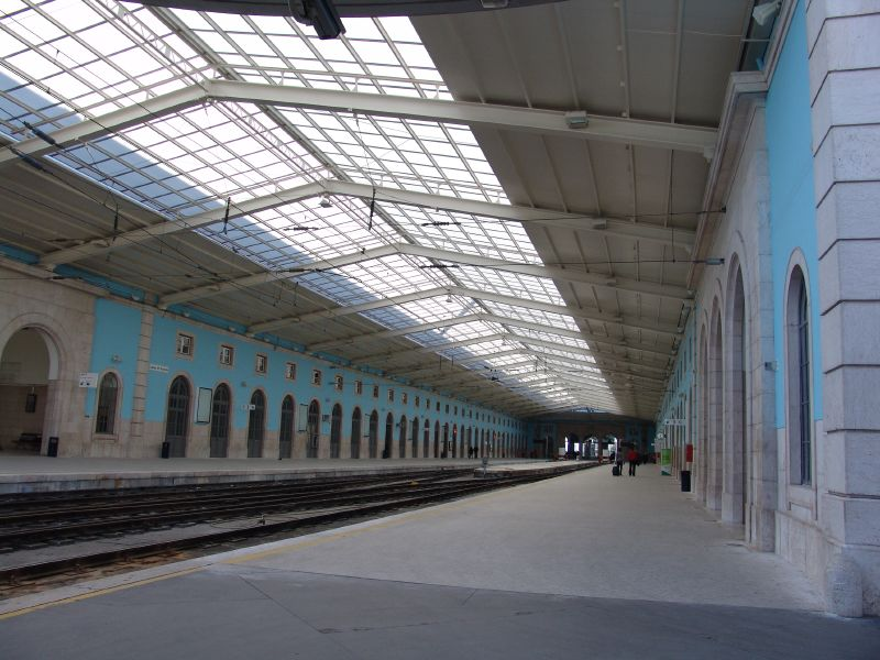 Lisbon train station Santa Apolónia, Portugal